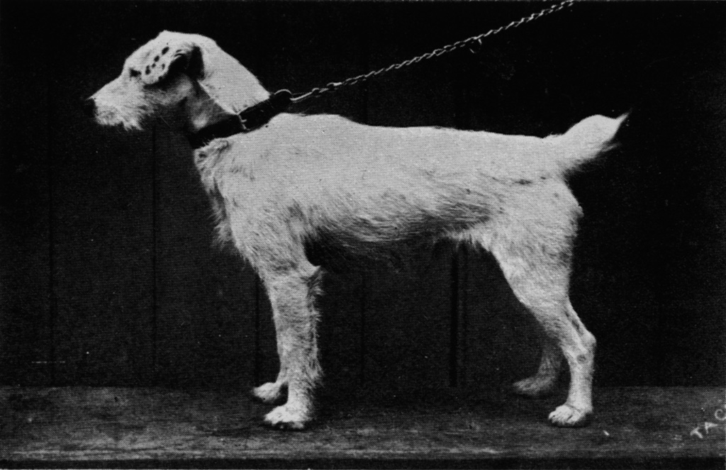 Carlisle Tack (b. 1884) was a Fox Terrier going back to dogs from Parson John Russell.